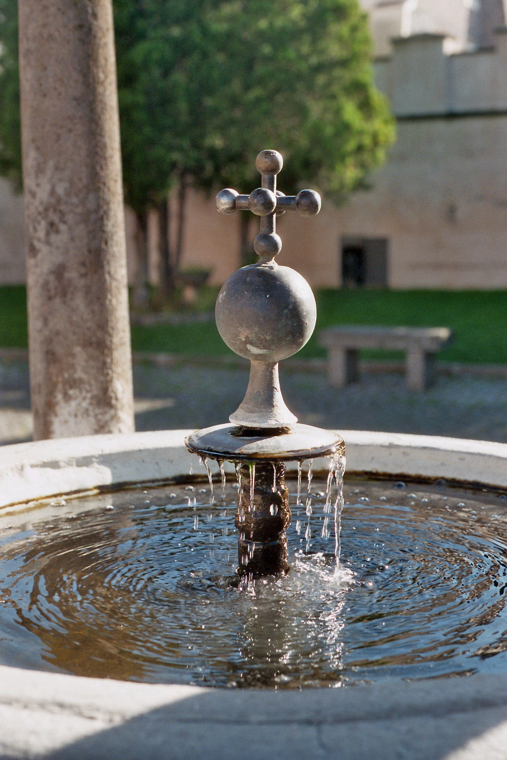 Fountain in front of the church of the Abbey of Grottaferrate, Latium, Italy